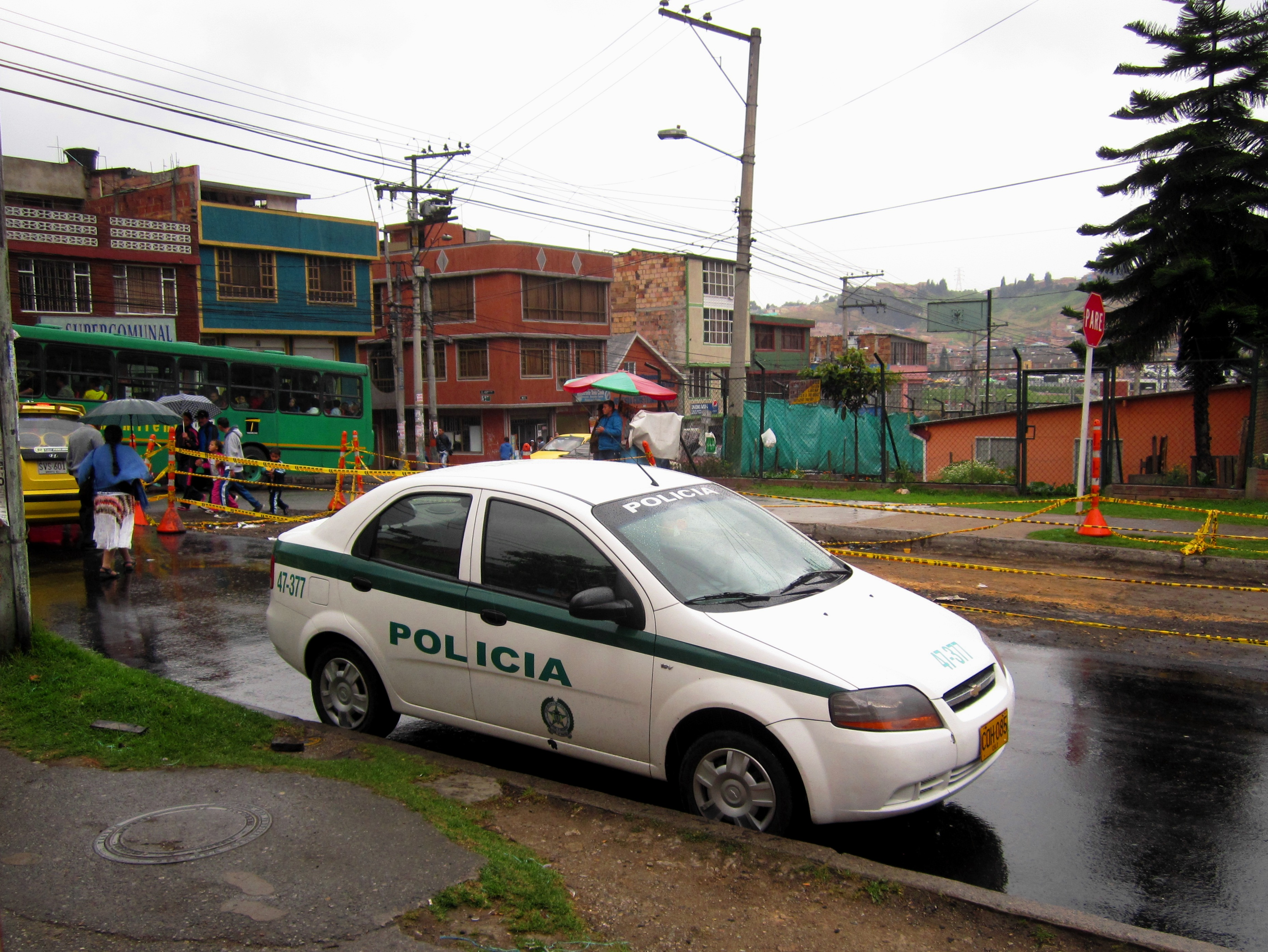 Bogotá